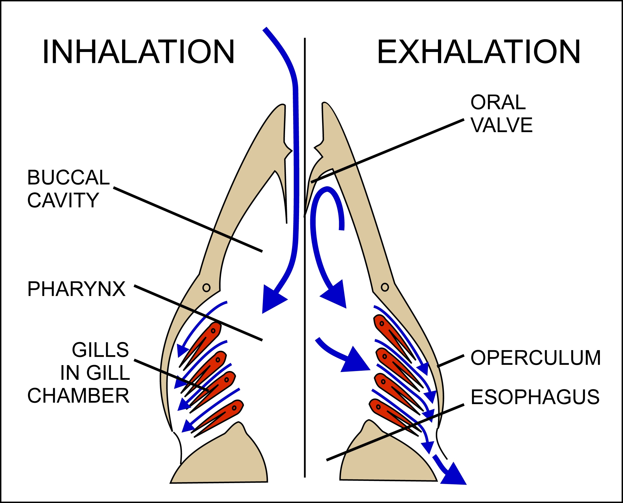 Respiratory mechanism in bony fish, shown in a horizontal section through the mouth, pharynx and gill chamber. Movement of water is indicated by blue arrows. Inhalatory process on the left, exhalation on right.